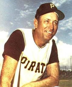 Professional baseball manager Harry Walker